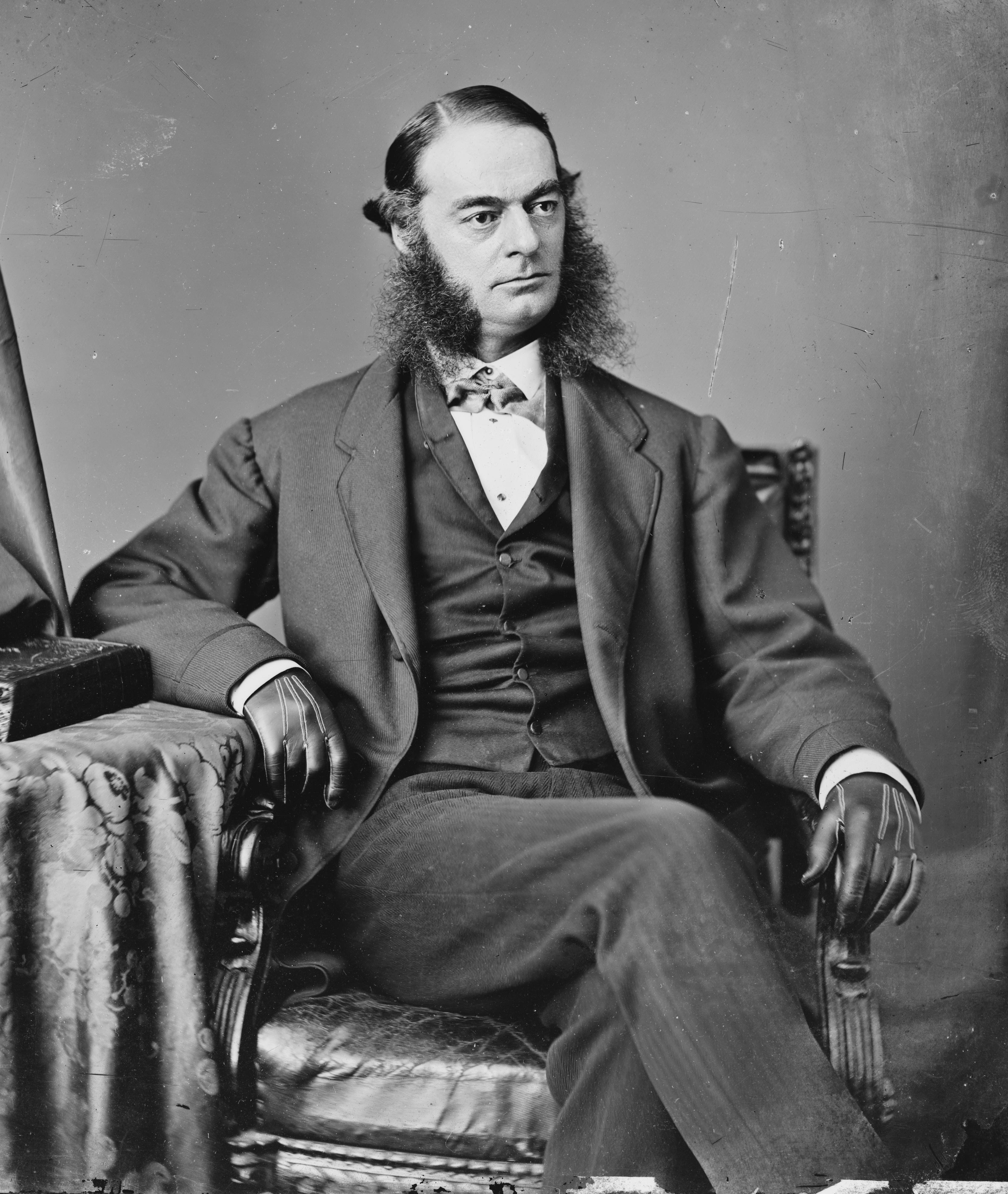 Clarkson Nott Potter. Library of Congress description: "Hon. Clarkson Potter of N.Y."